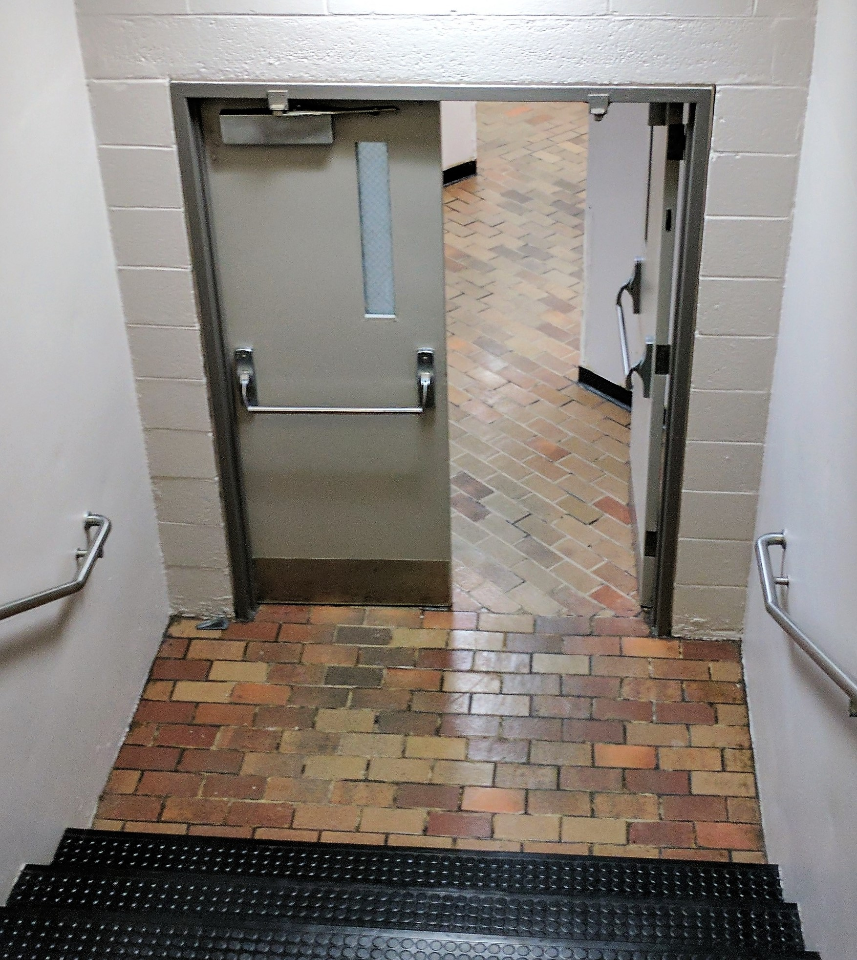 Cross bar style panic bar doors at the bottom of a staircase.